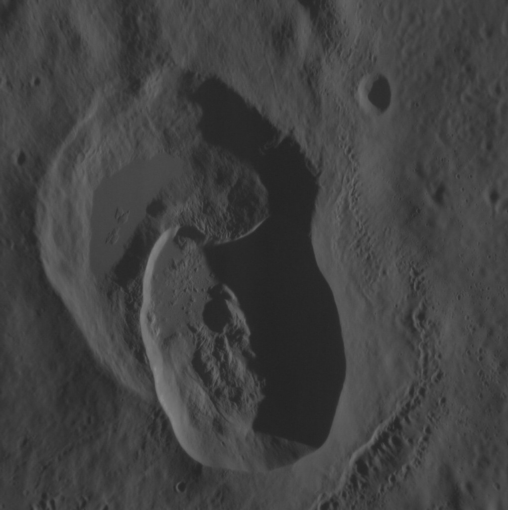 Ailey crater on Mercury. MESSENGER Narrow Angle Camera image. Center Emission Angle: 36.865610050378 Center Incidence Angle: 75.31717112329 Center Latitude: 45.73989944443 Center Longitude: 178.0967554813 Center Phase Angle: 112.1818022527